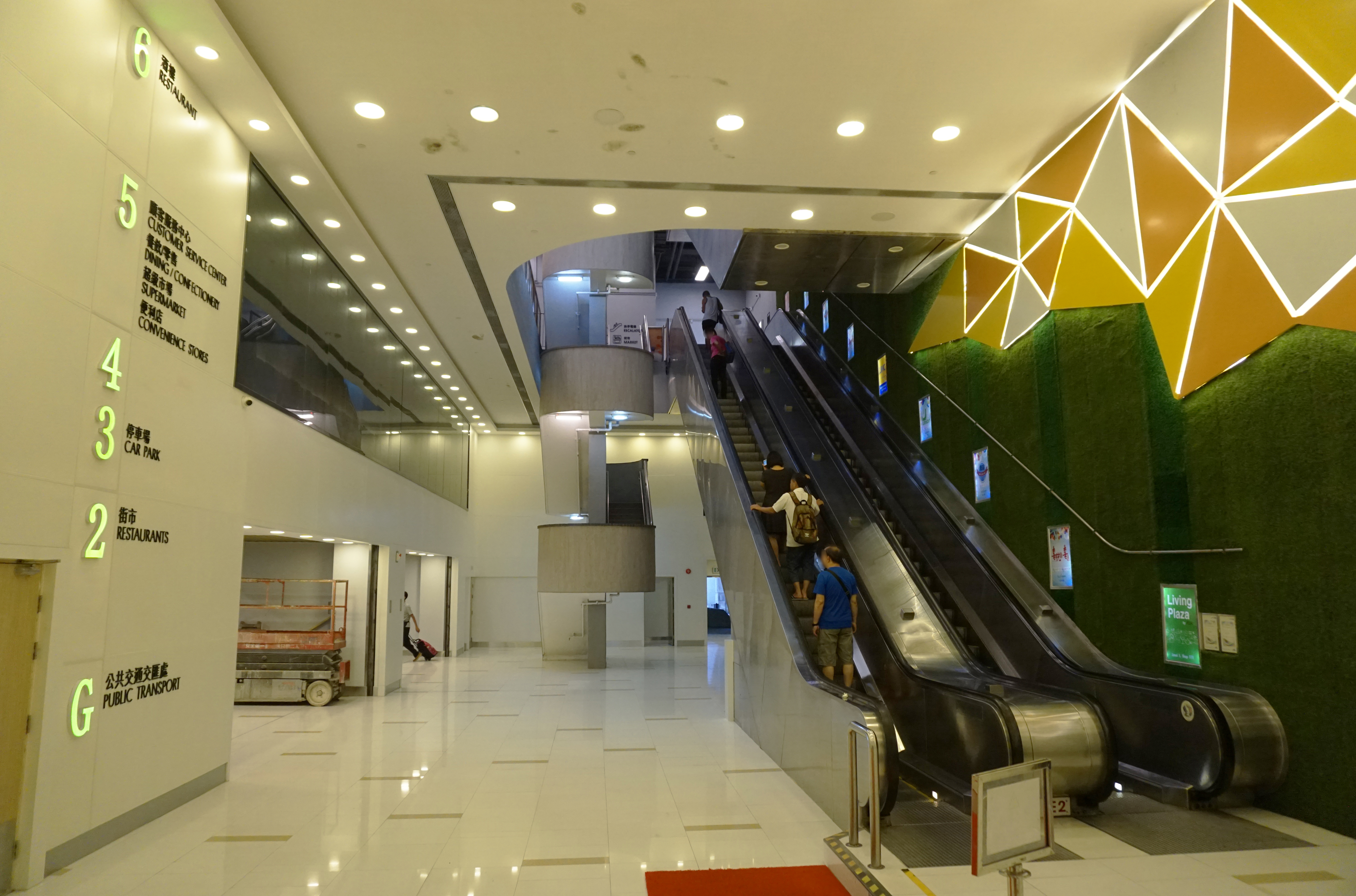 Tsui Lam Square in Tseung Kwan O, Hong Kong.